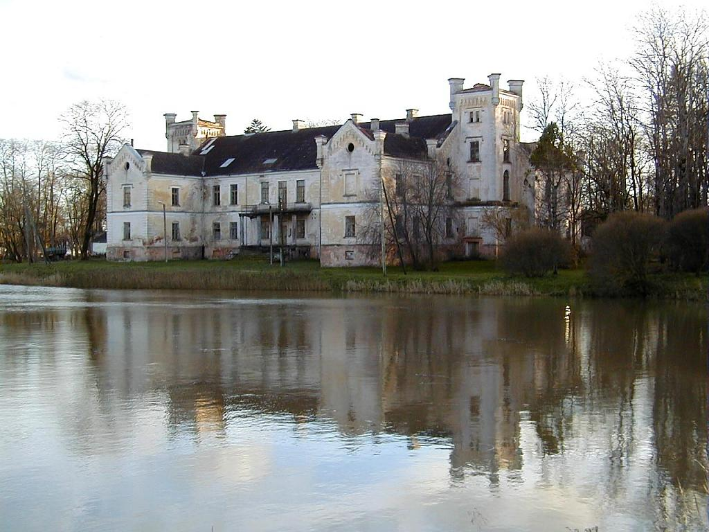 Cīrava Palace